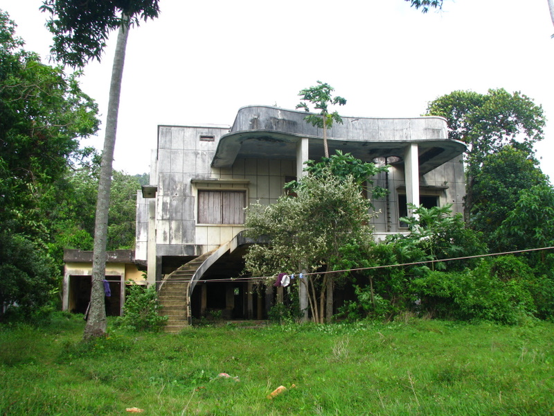 One of many turn of the century houses abandoned in Kep, Cambodia